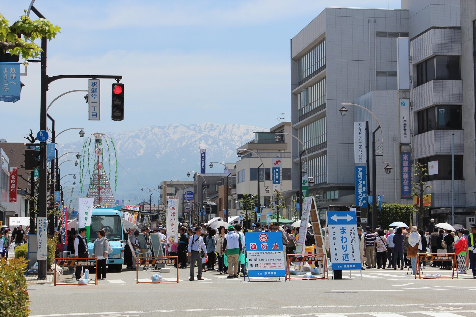 Festival held at downtown Uozu, Toyama, Japan